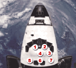 The seating assignments for shuttle flight STS-121.